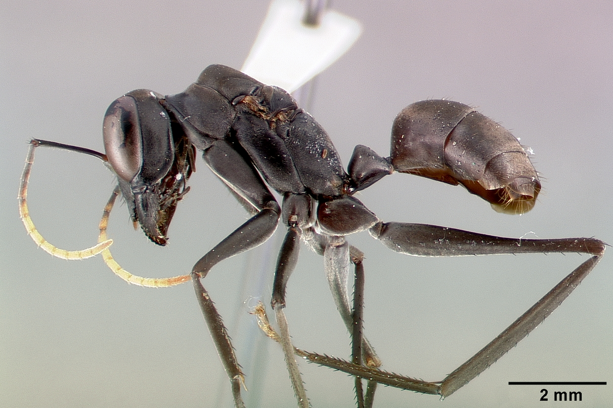 Profile view of ant Gigantiops destructor specimen casent0006124.